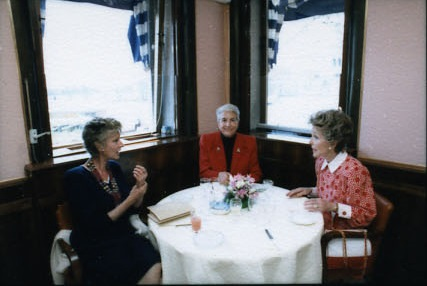 Nancy Reagan dines at Harry's Bar (Venice) in 1987